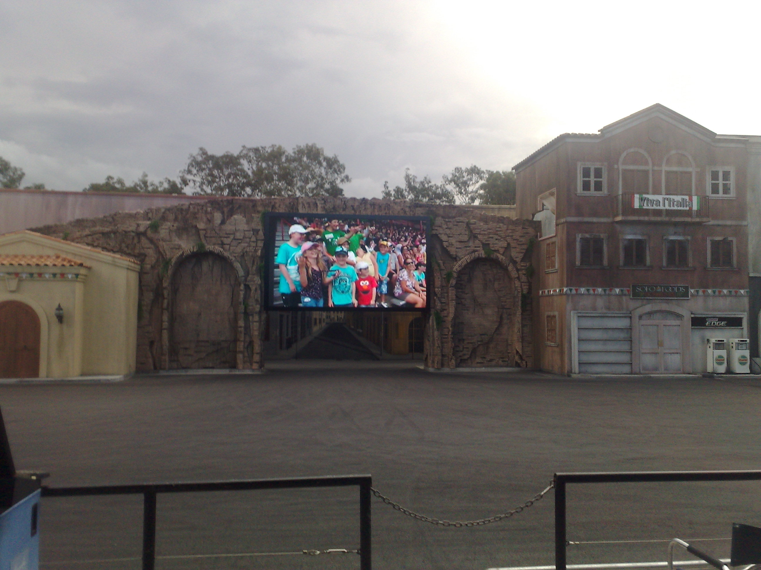 The centre of the Hollywood Stunt Driver arena at Warner Bros. Movie World.